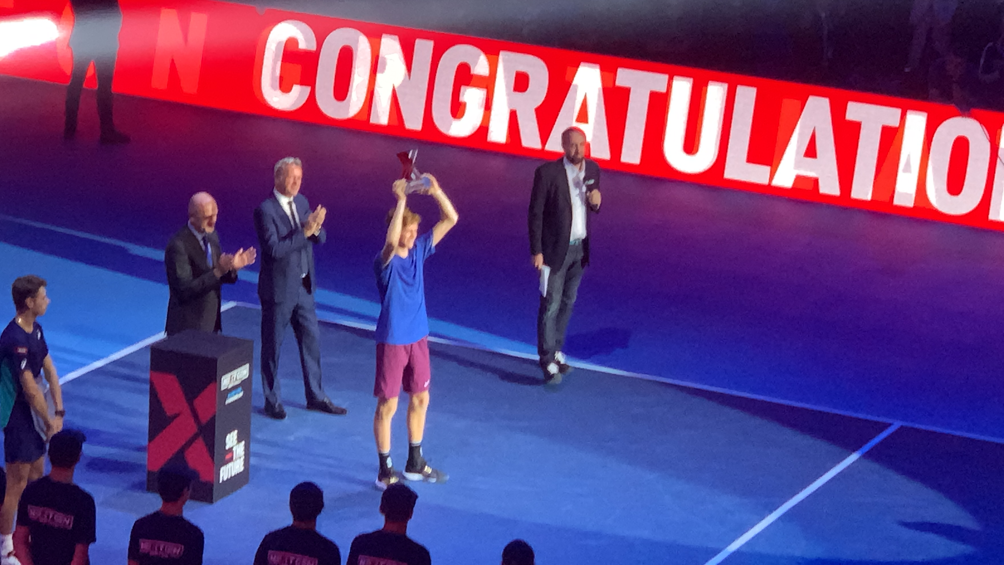 Sinner lifts the trophy